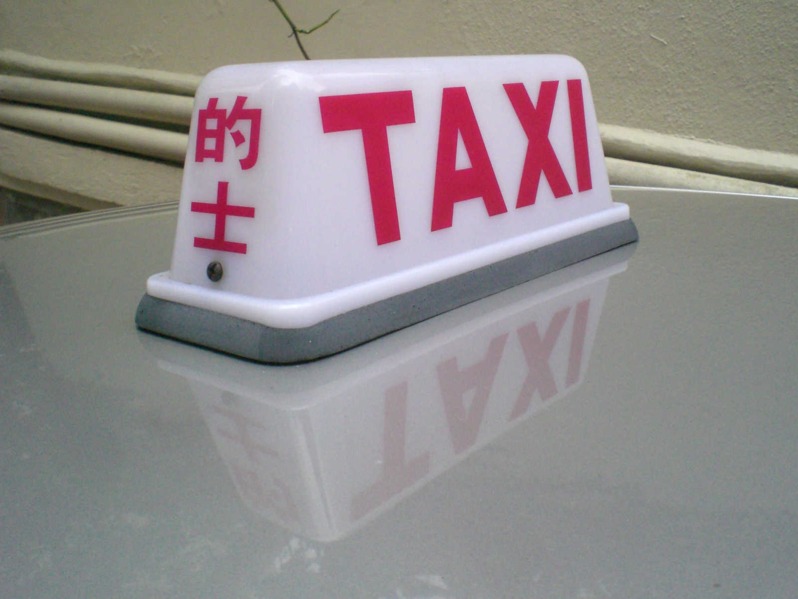 香港的士機械零件分佈